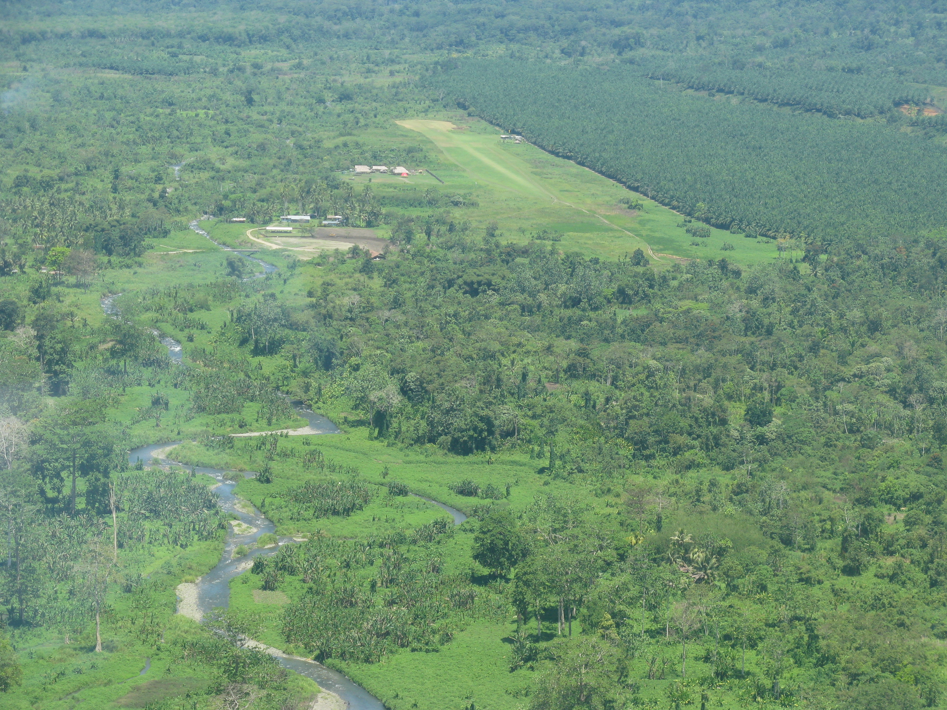 Kokoda village airstrip, Papua New Guinea.